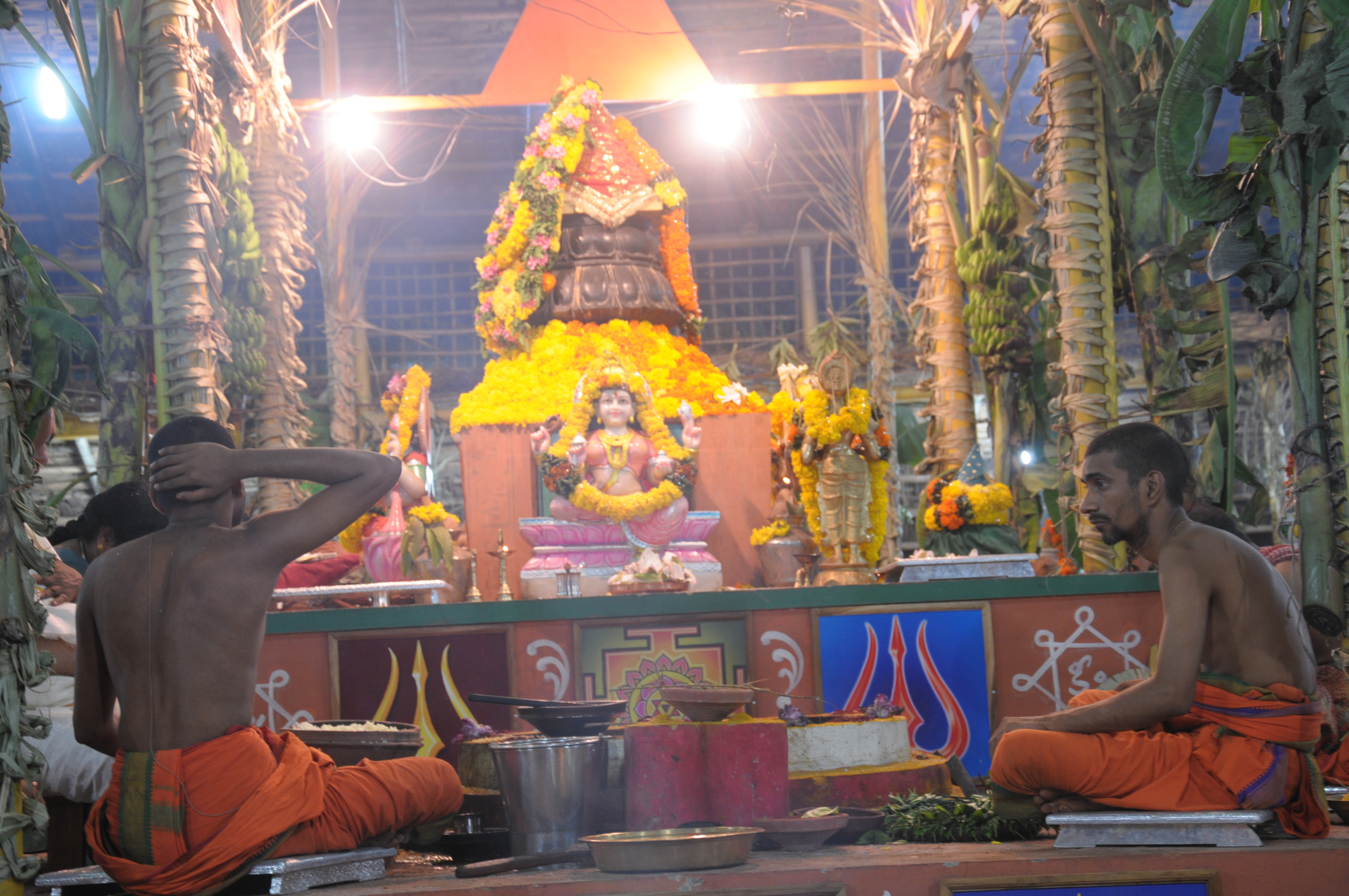 yagasala infrastructure at ahoratram. chatussashti yogini yagasala